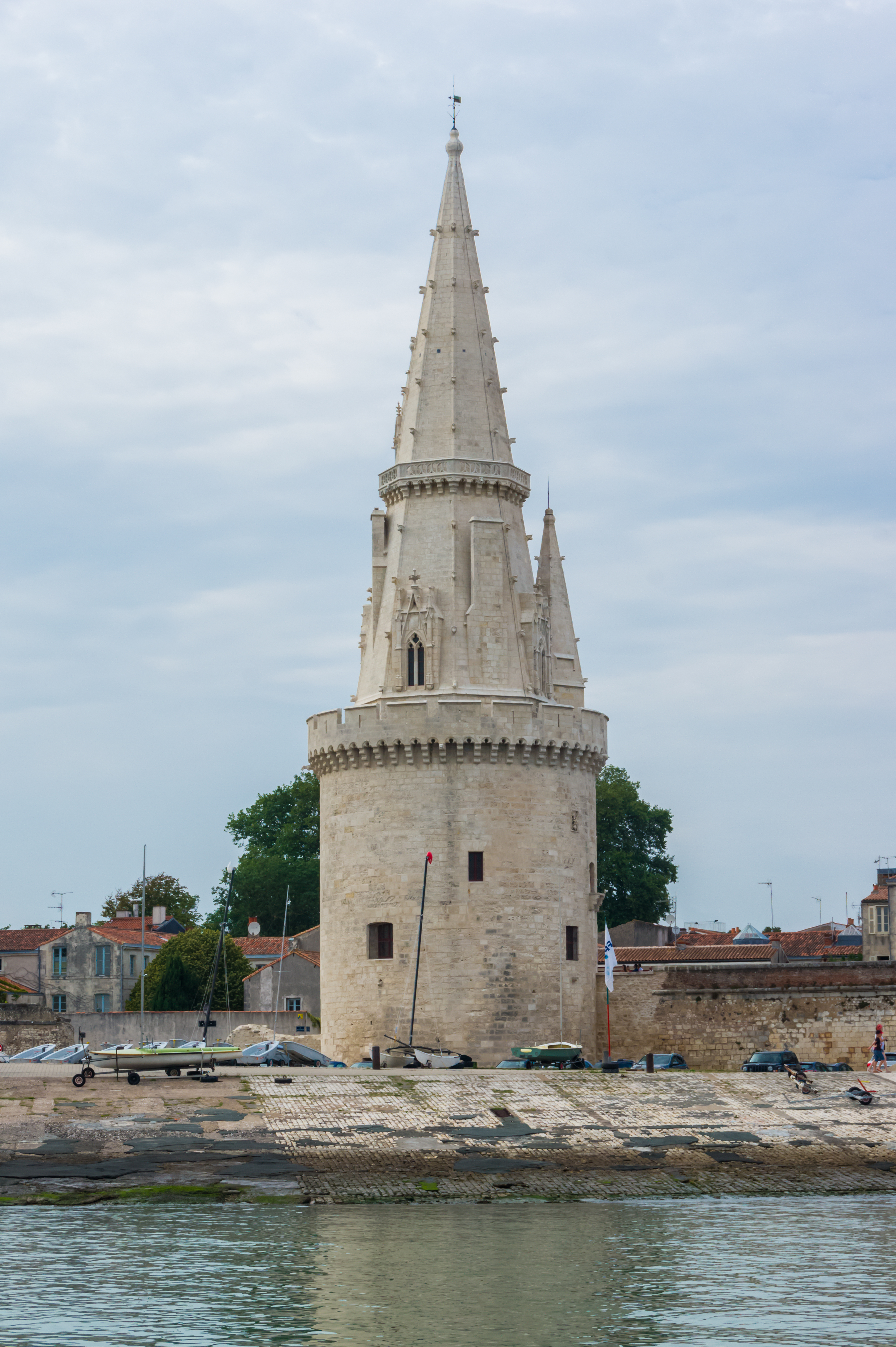 The "Tour de la Lanterne" in La Rochelle, Charente-Maritime, France, in august 2015 after renovation.